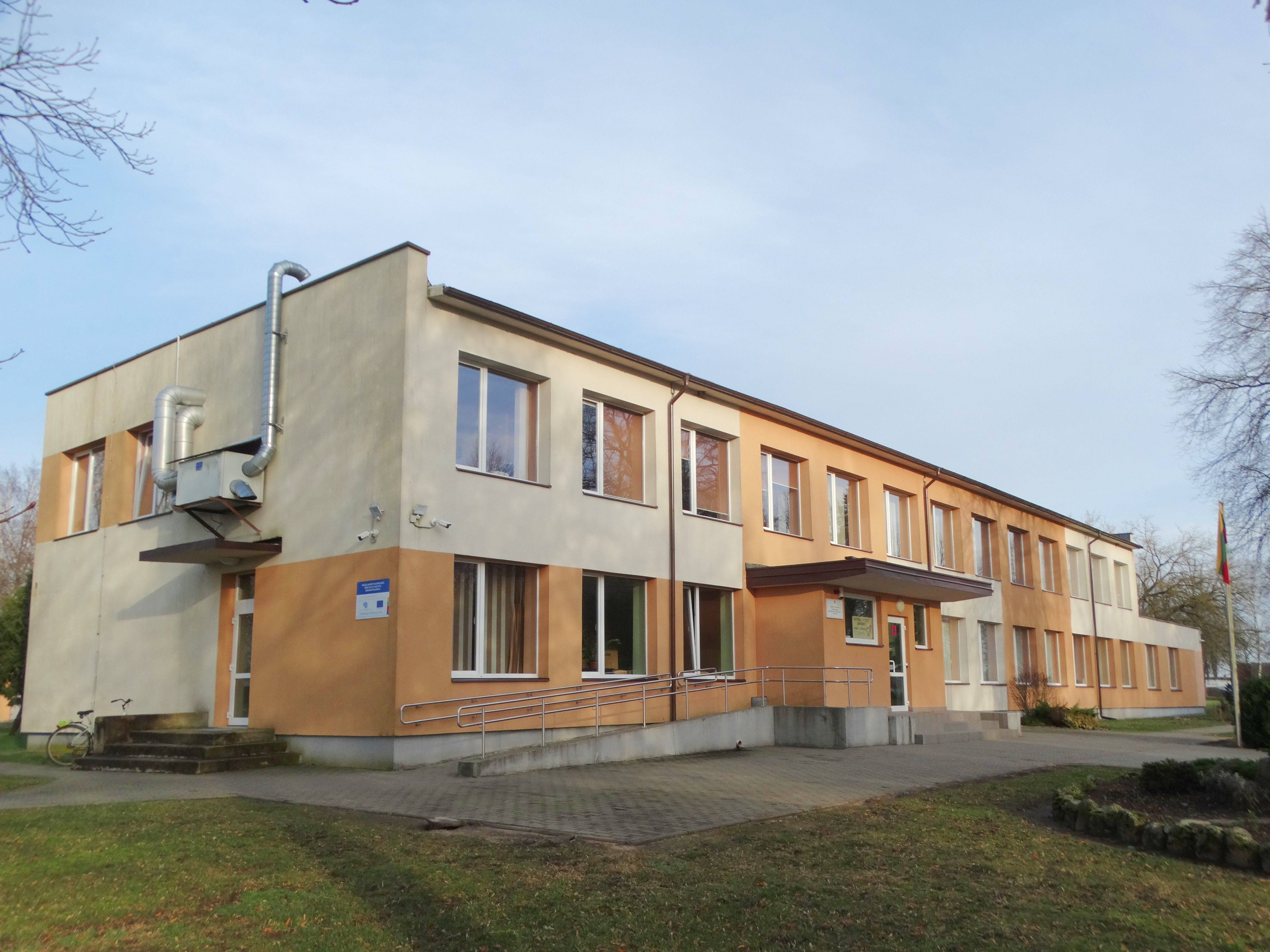 Grūšlaukė, school, Kretinga district, Lithuania